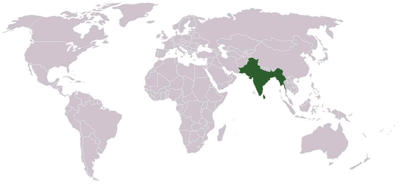 The projection of British India on the political map of today's world.